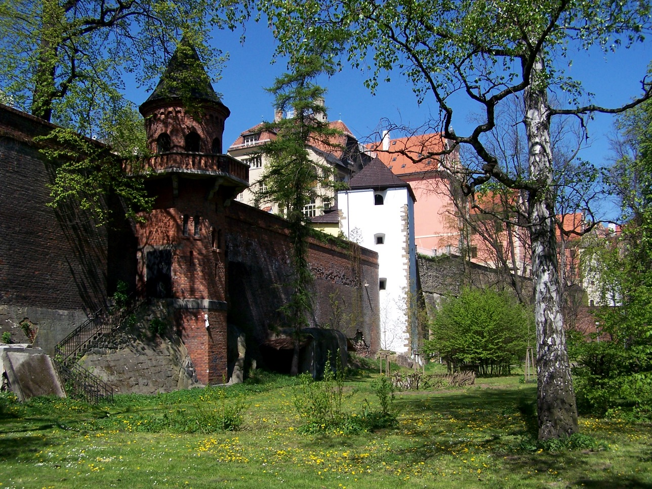 A fortification in "Bezručovy sady" Parc in Olomouc, Czech Republic